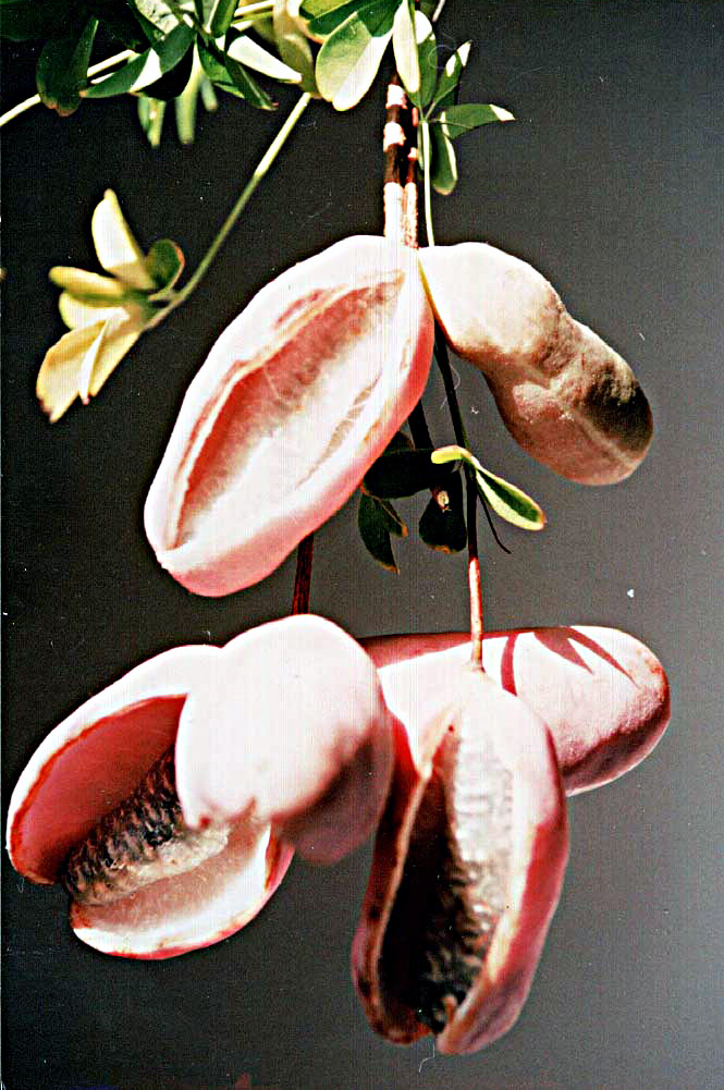 Akebia quinata fruits